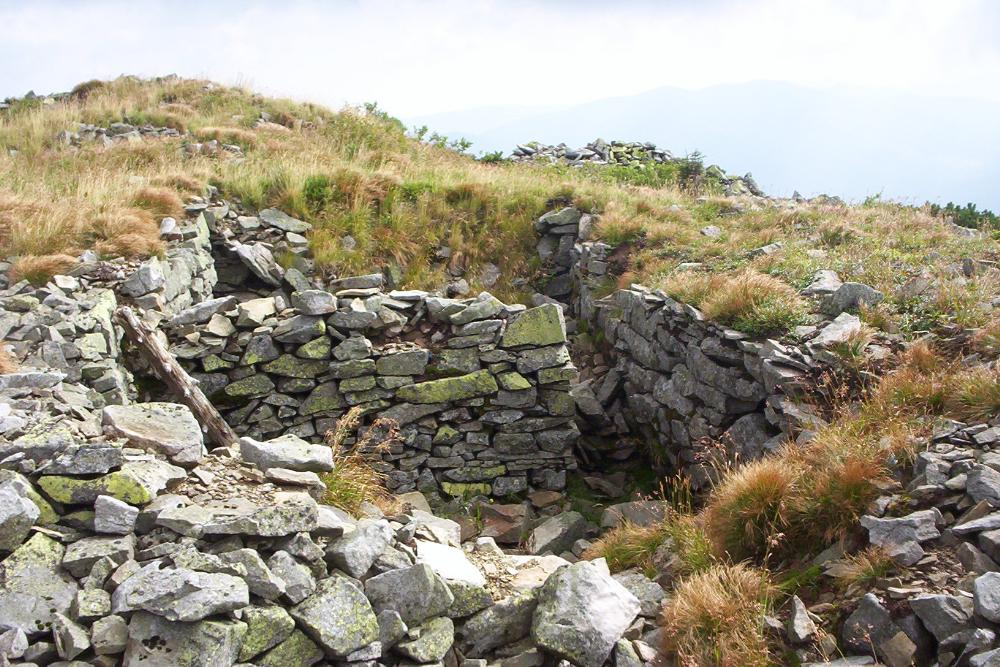 Trenches on Small Syvulia.